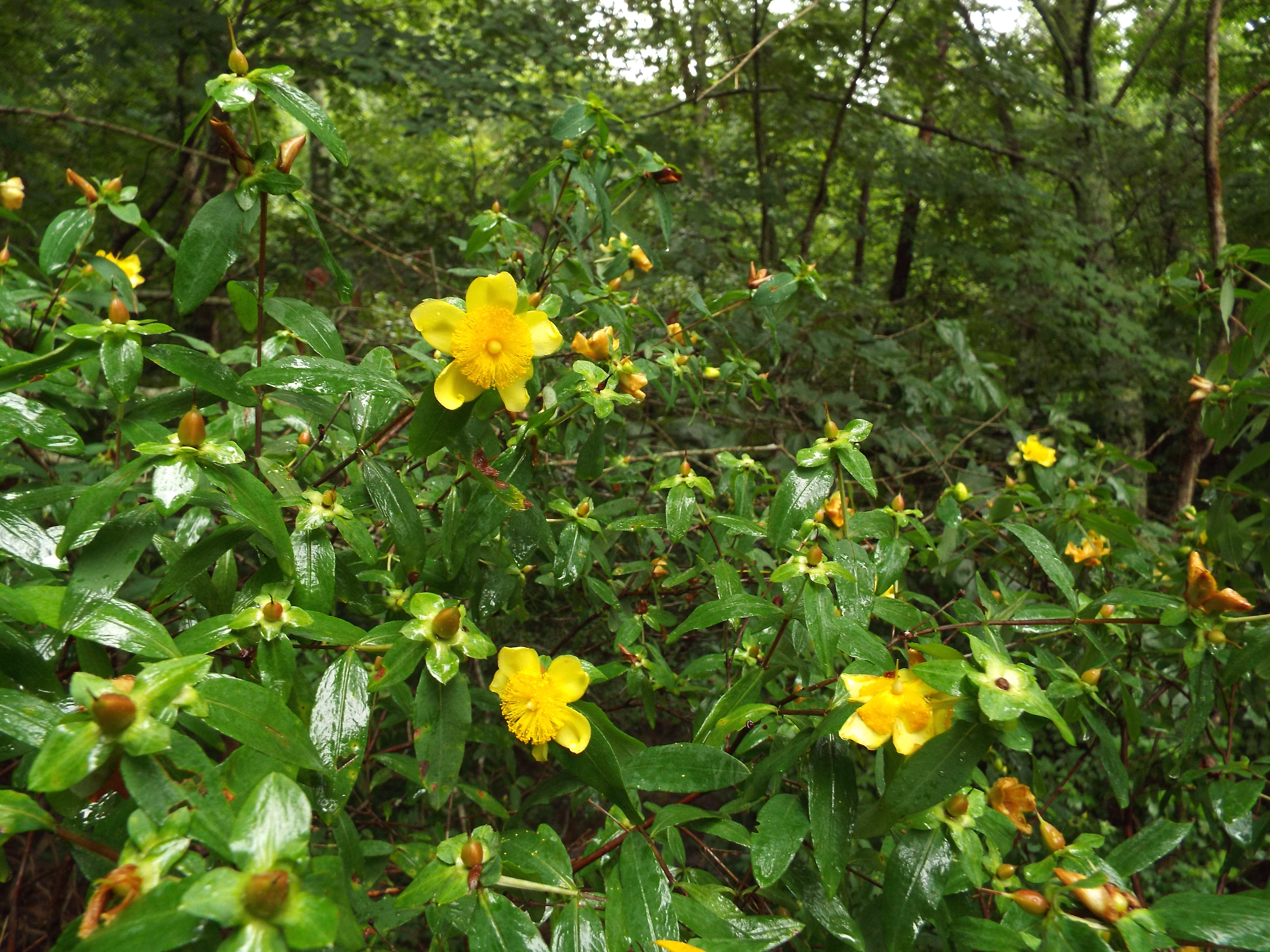 Hypericaceae Hypericum frondosum found in Altamount, TN